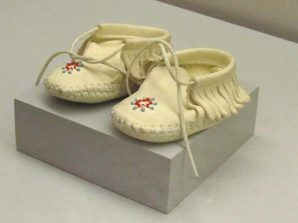 Moccasins, suede with glass beads. Native American, southeastern United States, 20th century. On display at the Museo de América (Madrid)